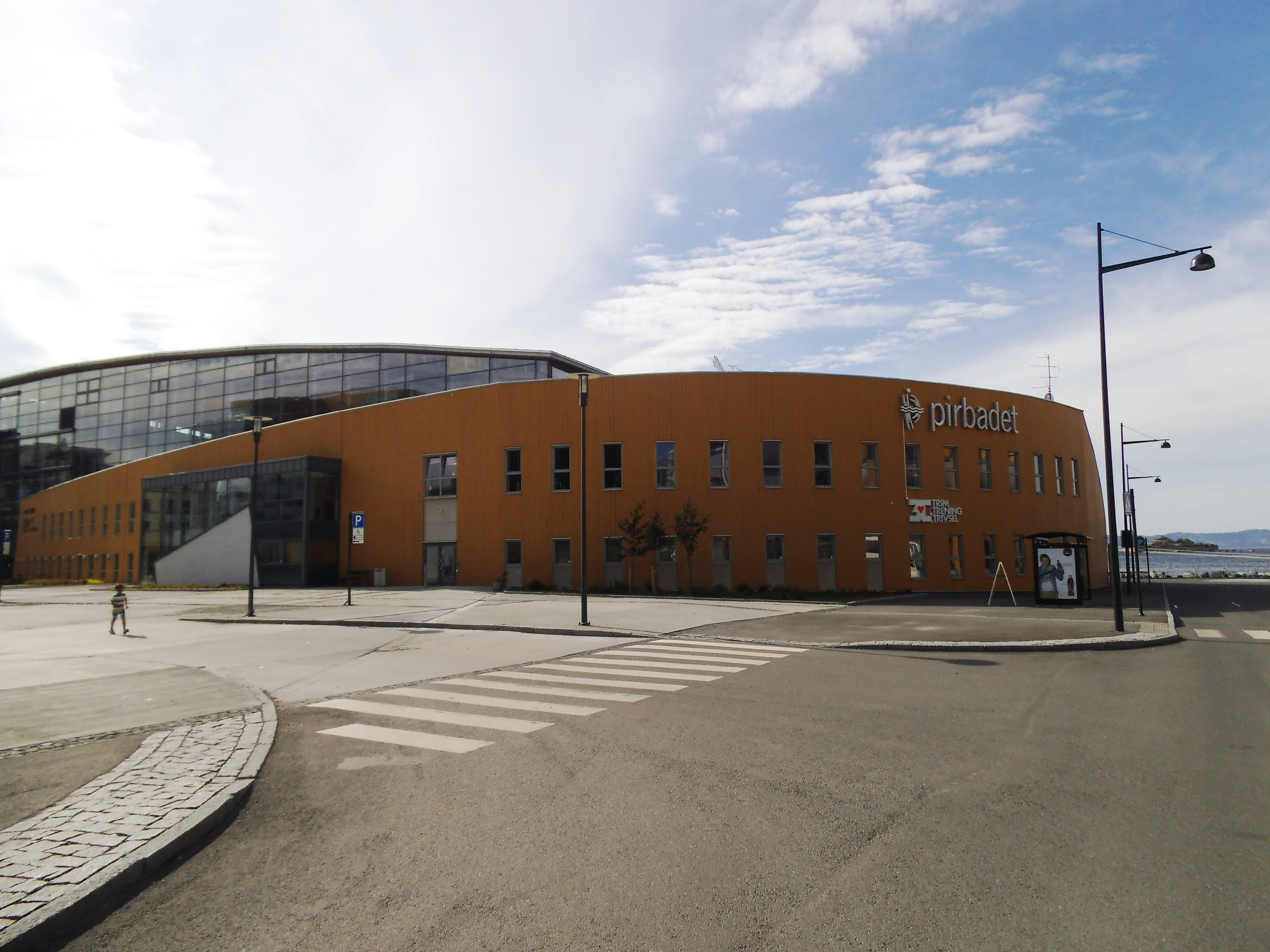 A public bath in Trondheim.